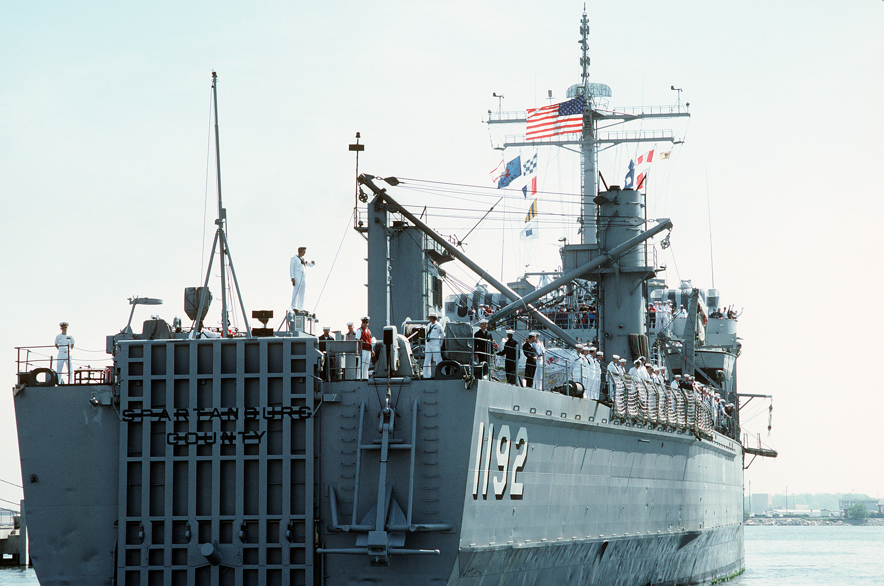 Crew members stand at the railing as the tank landing ship USS SPARTANBURG COUNTY (LST-1192) returns to port following deployment in the Persian Gulf area during Operation Desert Storm. Location: NAVAL AMPHIB BASE, LITTLE CREEK, VIRGINIA (VA) UNITED STATES OF AMERICA (USA)